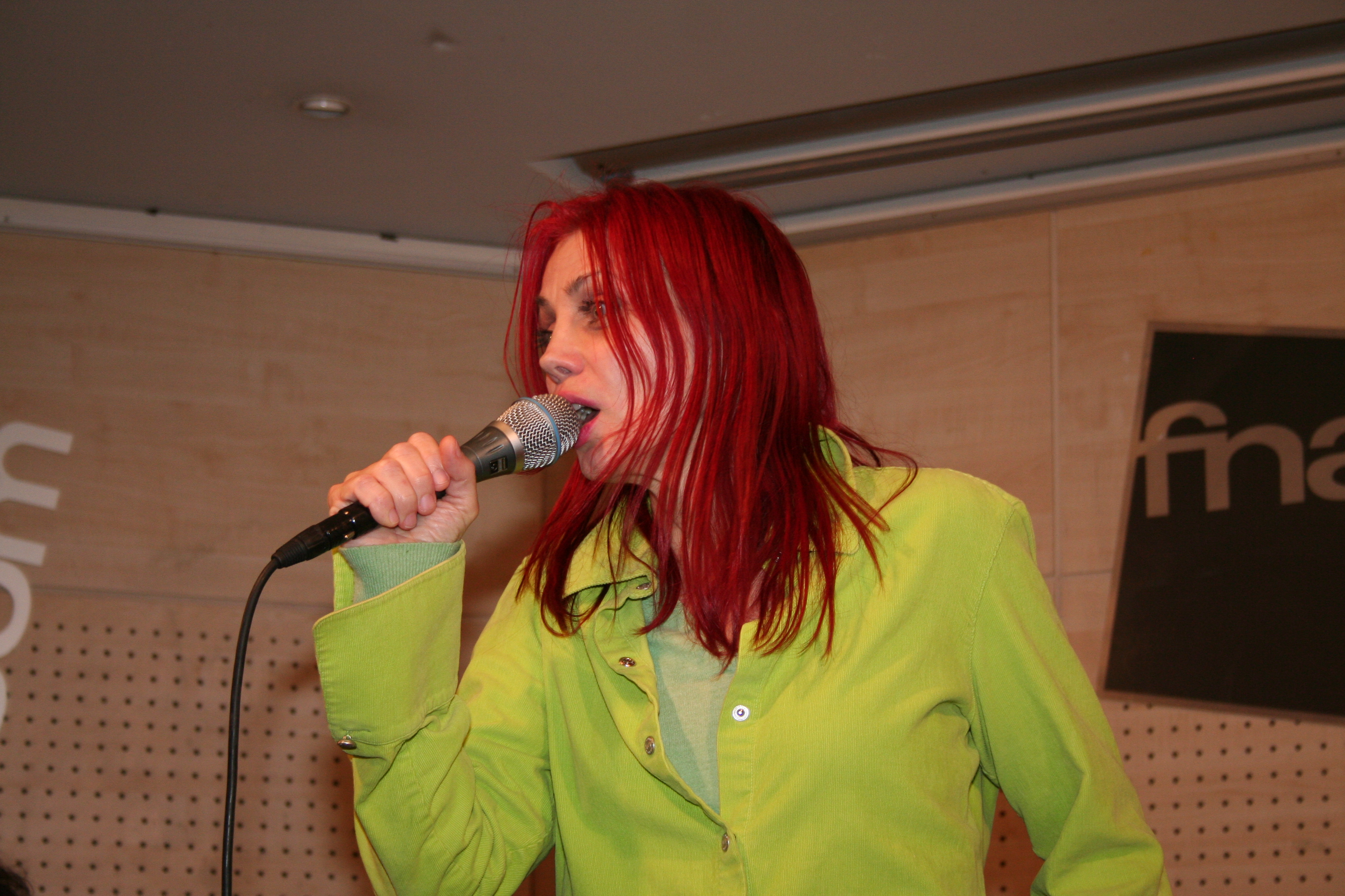 Show-case with Chloé Sainte-Marie at Fnac Saint-Lazare (Paris, France).